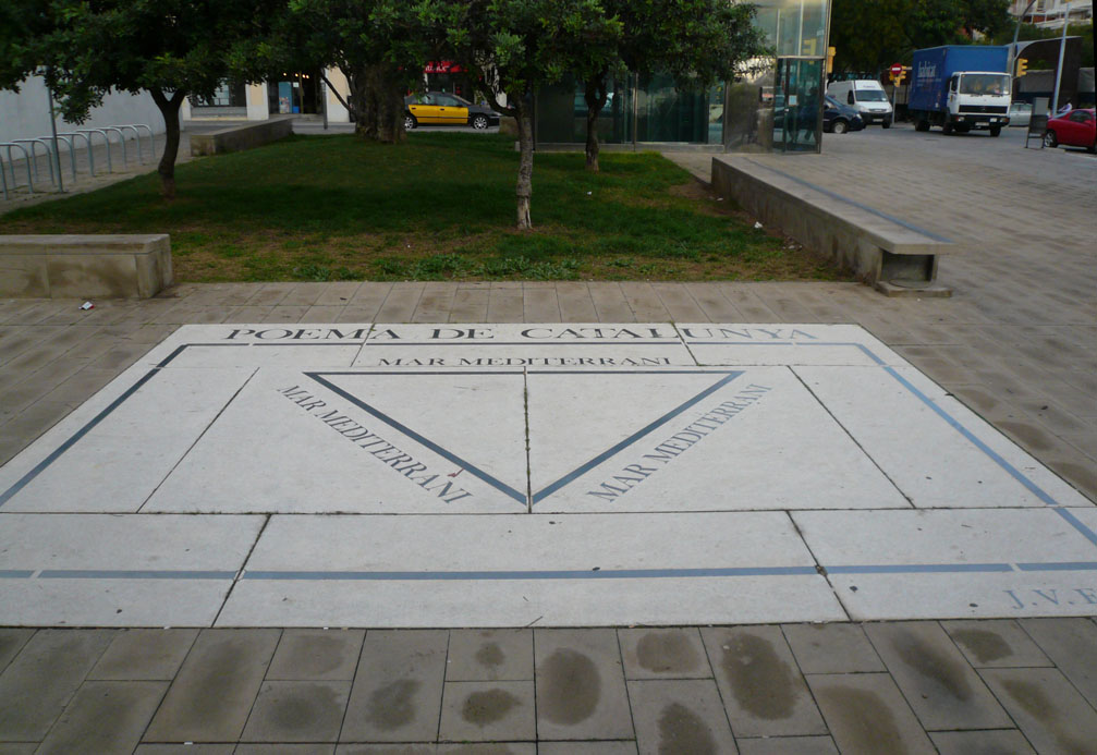 Poema de Catalunya ("Poem of Catalonia"), by J. V. Foix, Via Augusta, Sarrià (Barcelona), Catalonia